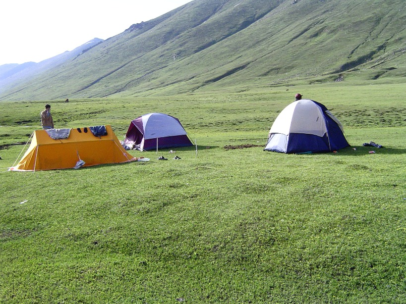 Camp side at Dudipat (Author: Ch. Muhammad Umer)